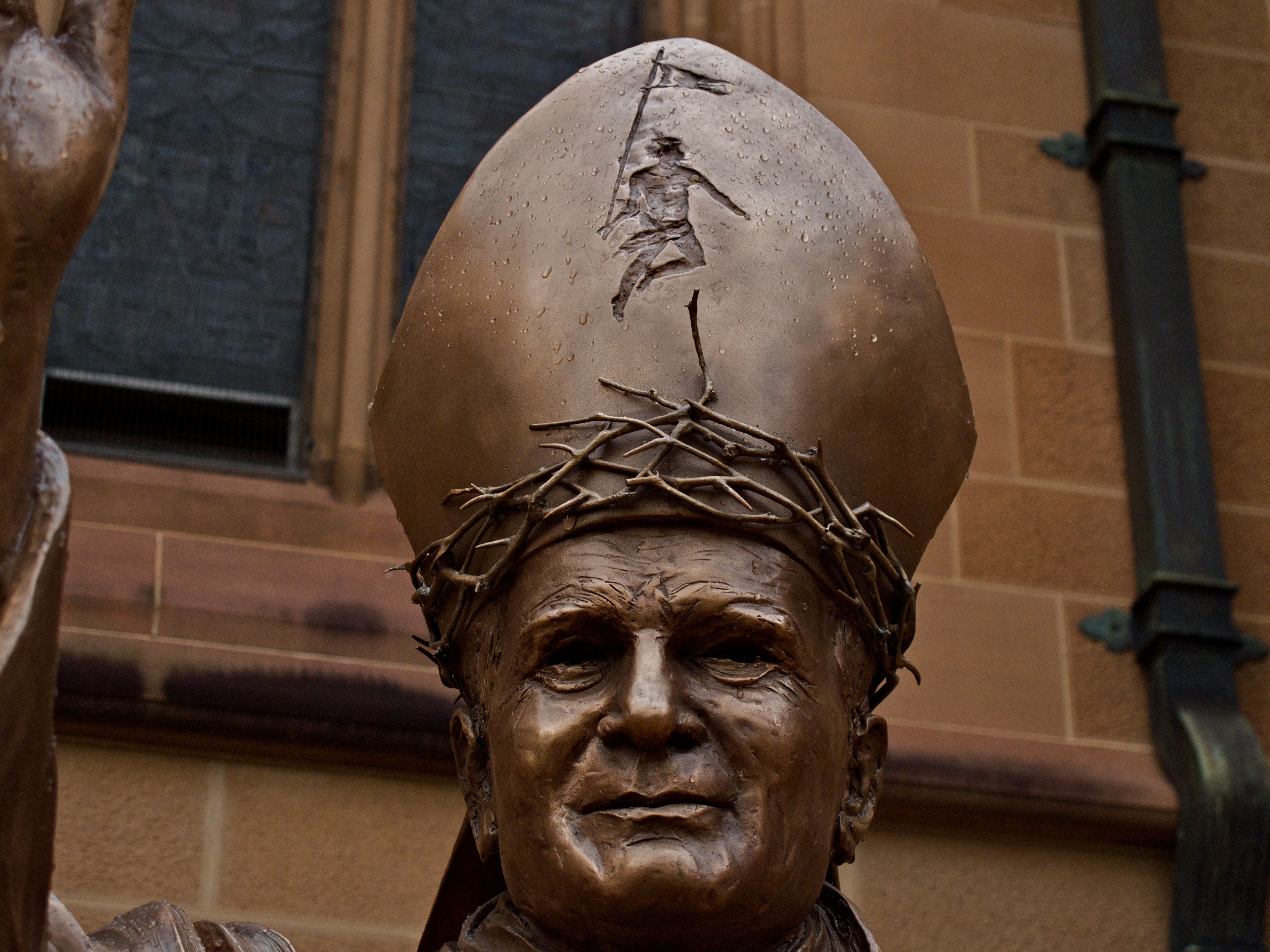 A statue of Pope John Paul II at St. Mary's Cathedral in Sydney, Australia.